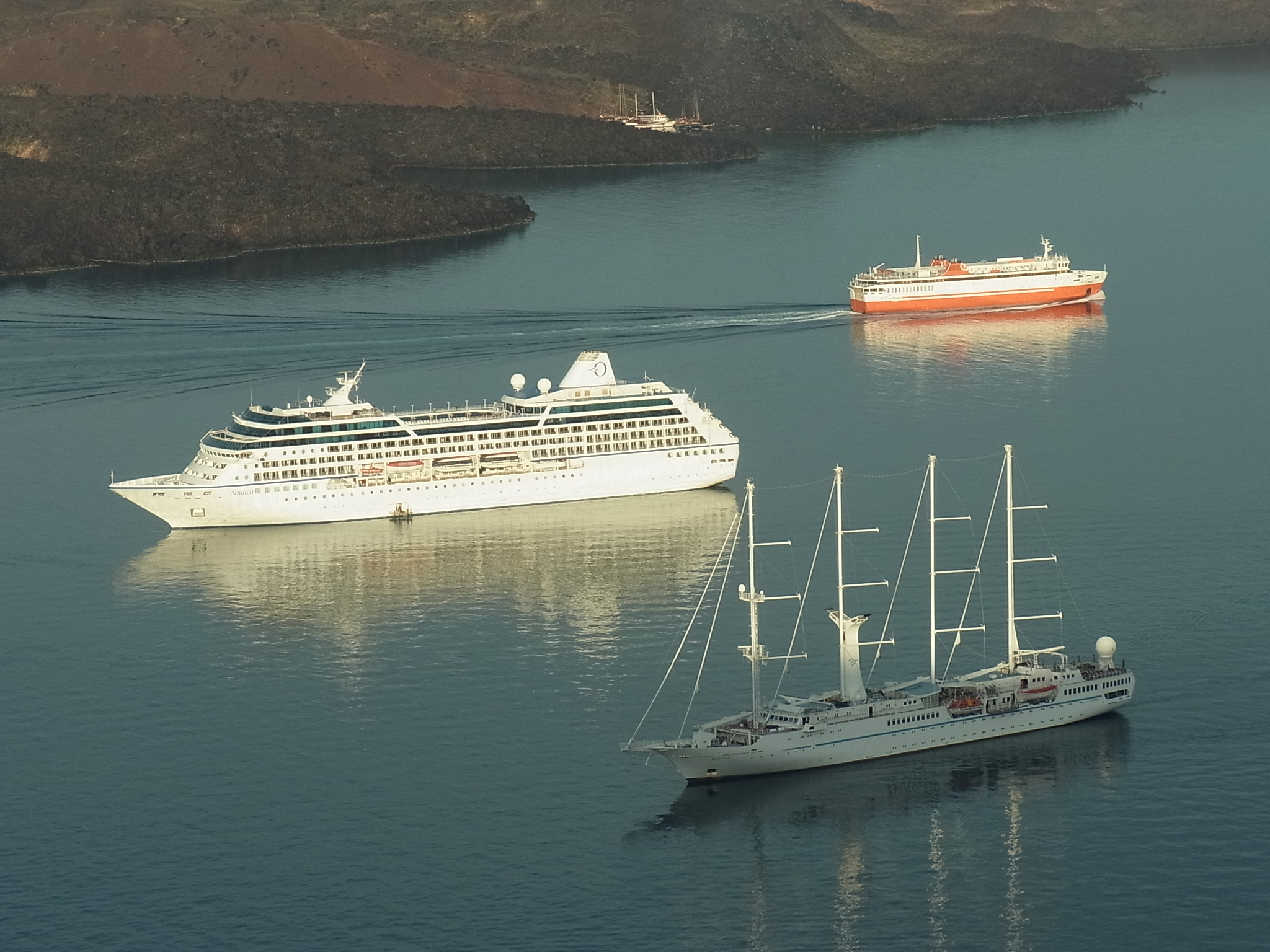 view from Fira